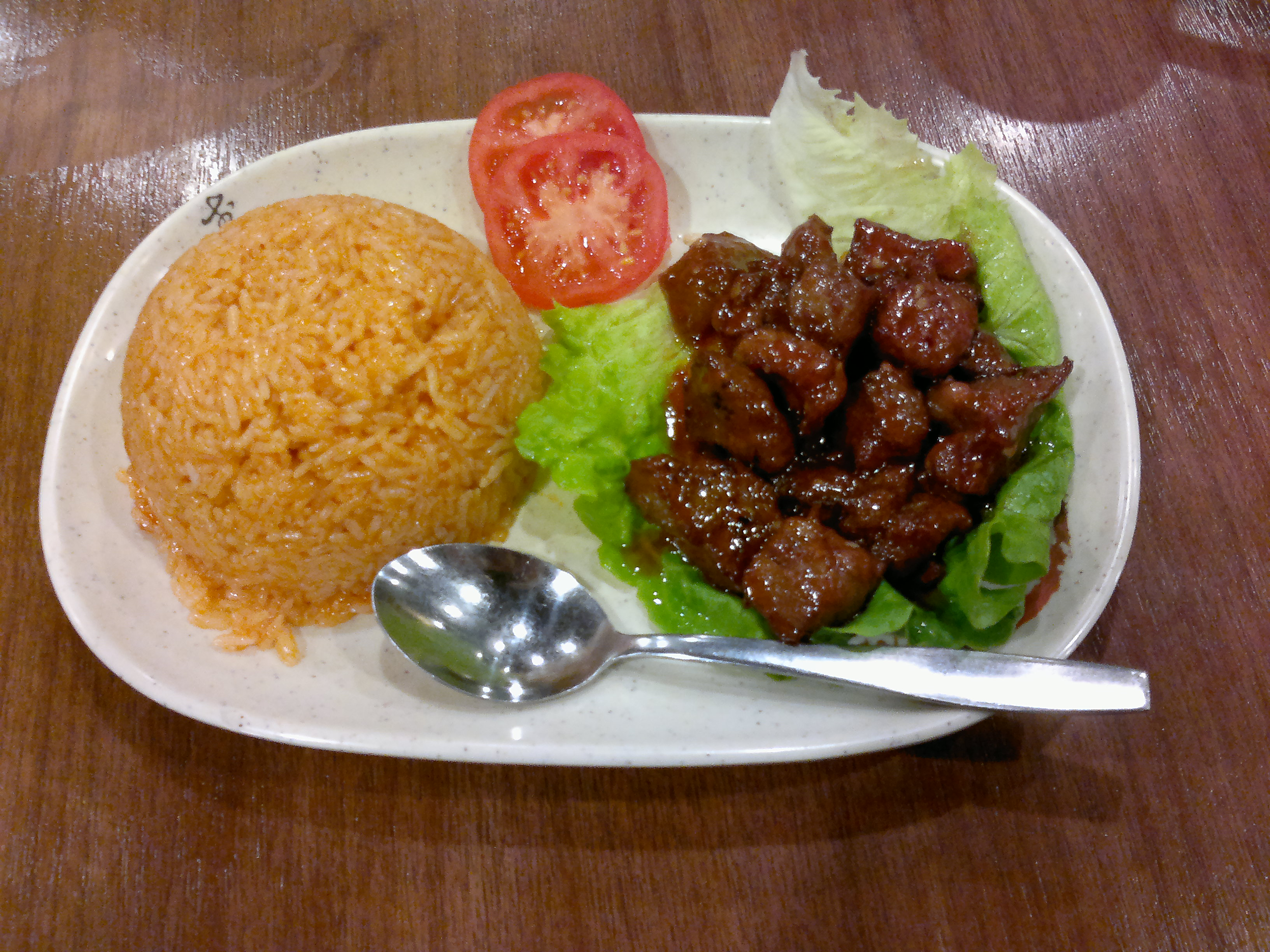 Vietnamese Beef Cube Red Rice